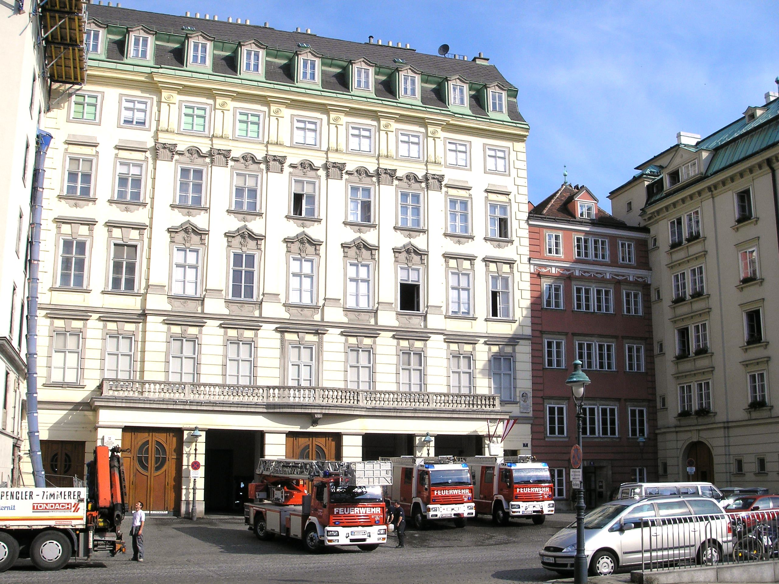 Firestation with engines, at Am Hof square in Vienna.